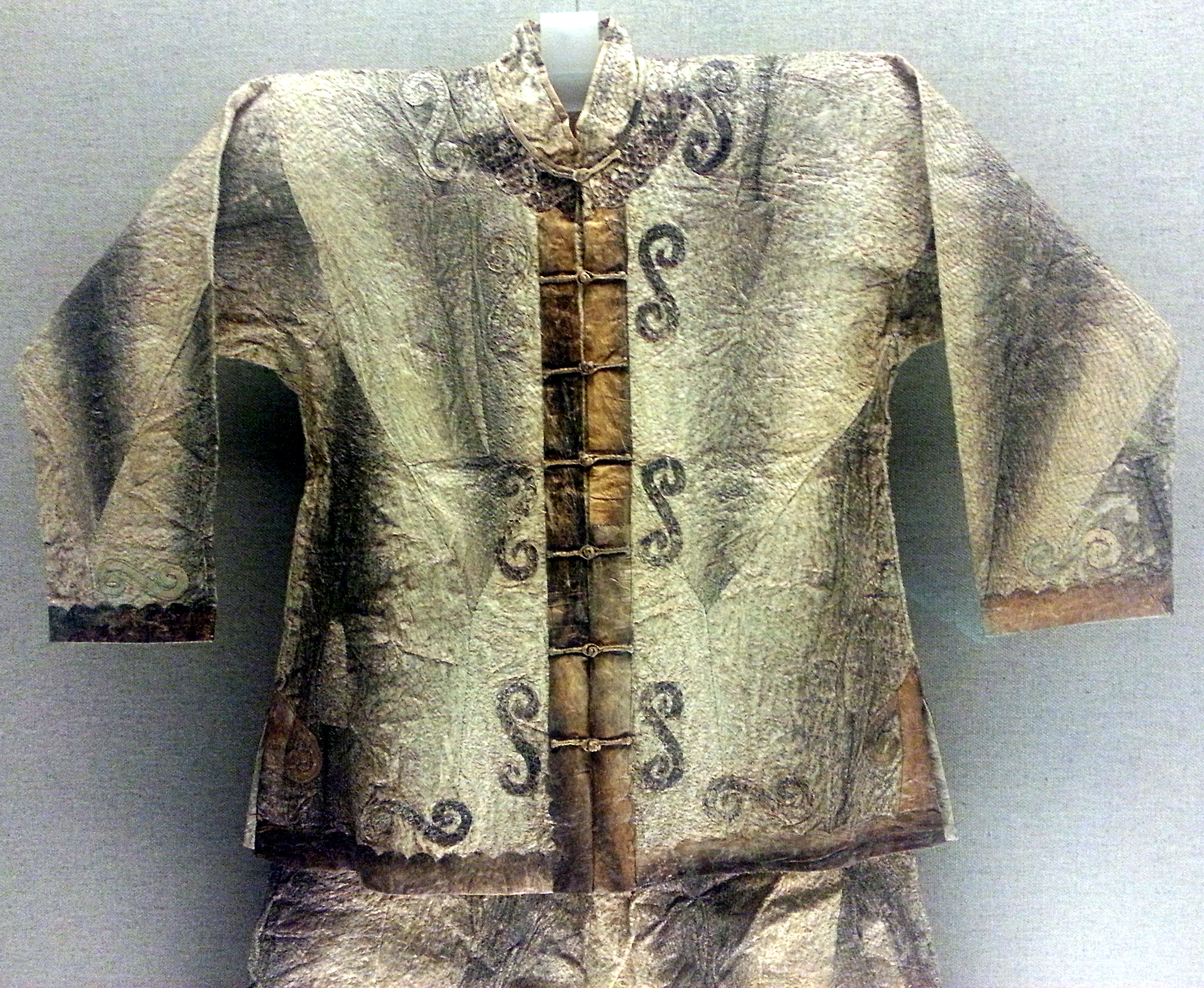 Photograph of a traditional fishskin jacket of the Nanai people exhibited in the Shanghai Museum.